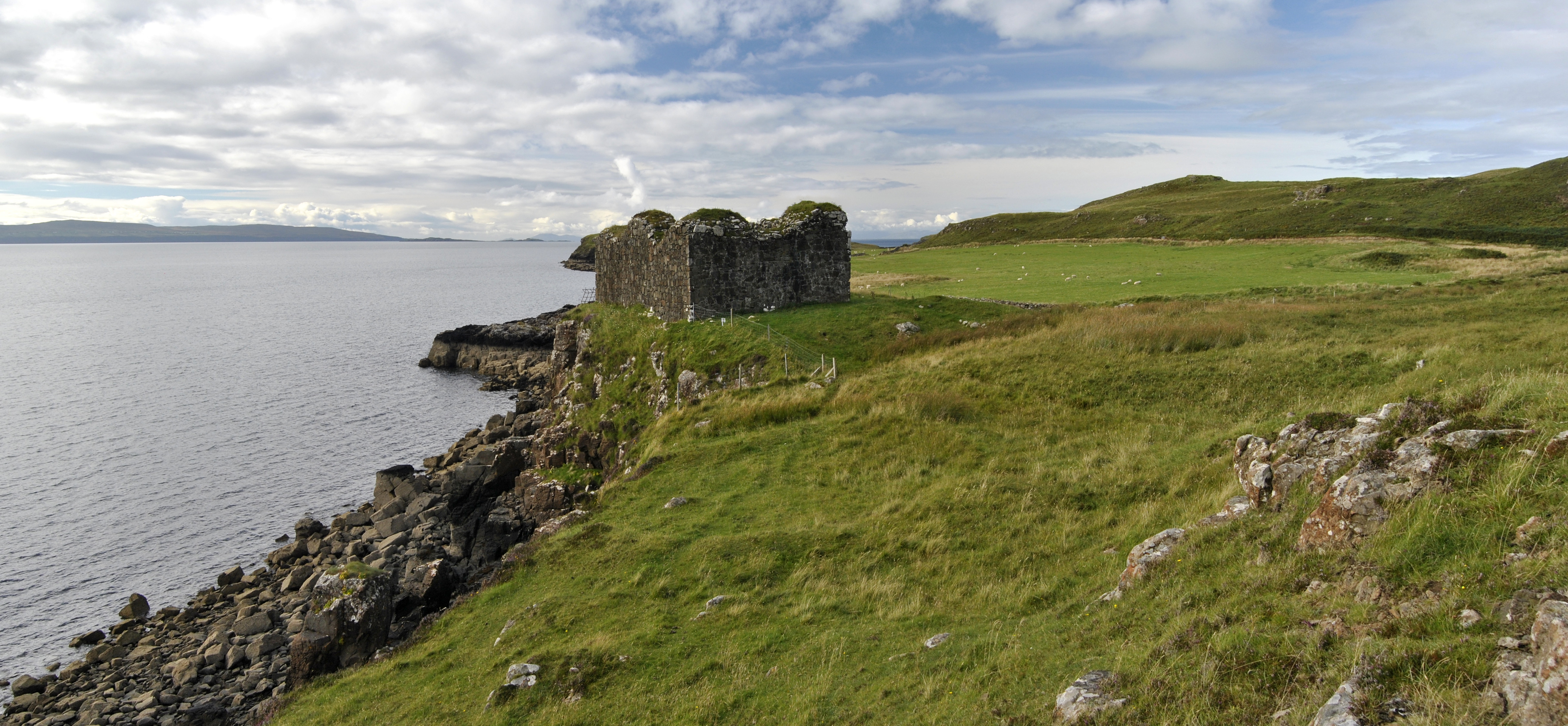 Exterior view of Caisteal Uisdein, Uig, Skye.